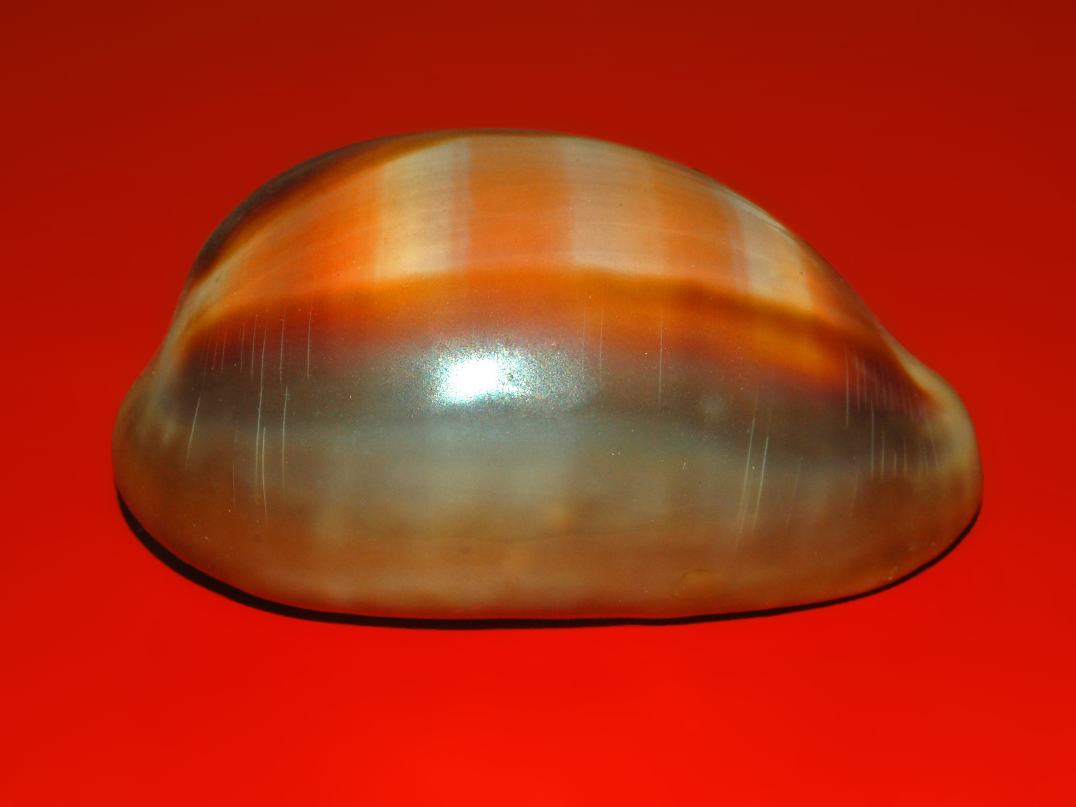 Lyncina ventriculus, Leyete, Philippines